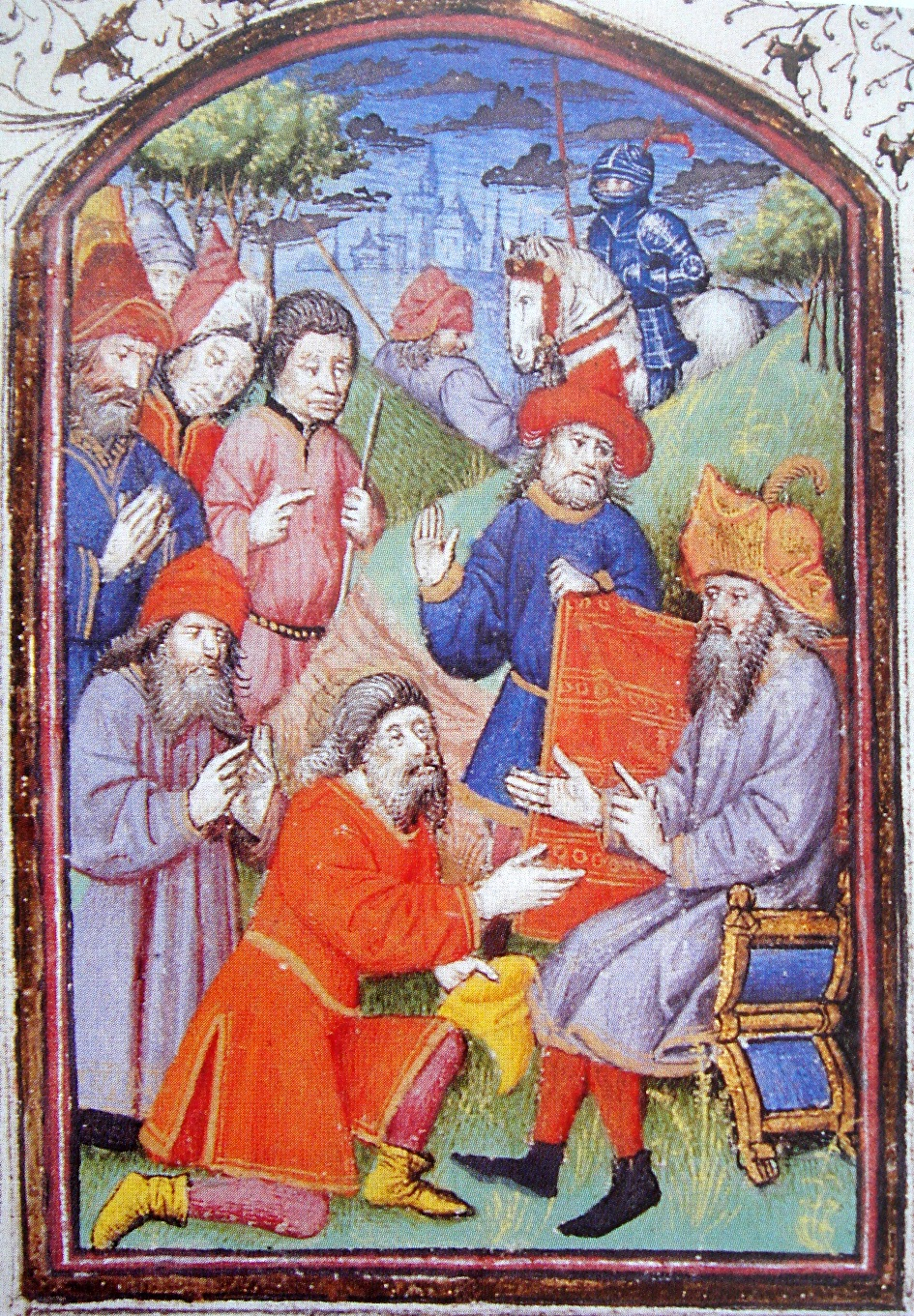 Hetoum I (seated) at the court of the Mongols, receiving hommage by the Mongols.